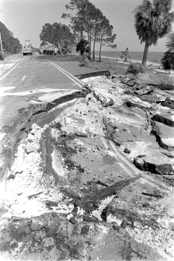 Road damage along the west coast of Florida, USA from Hurricane Elena in 1985.